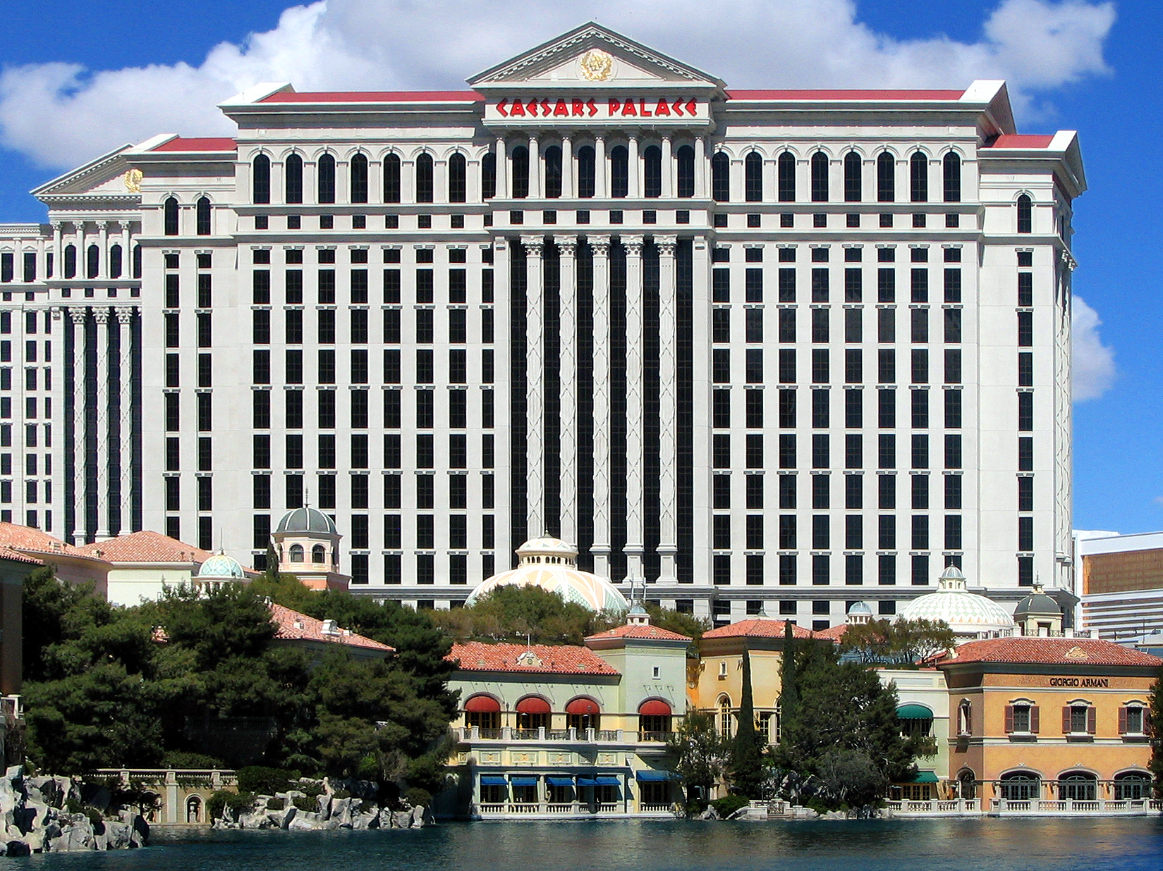 Caesars, across Bellagio Lake.